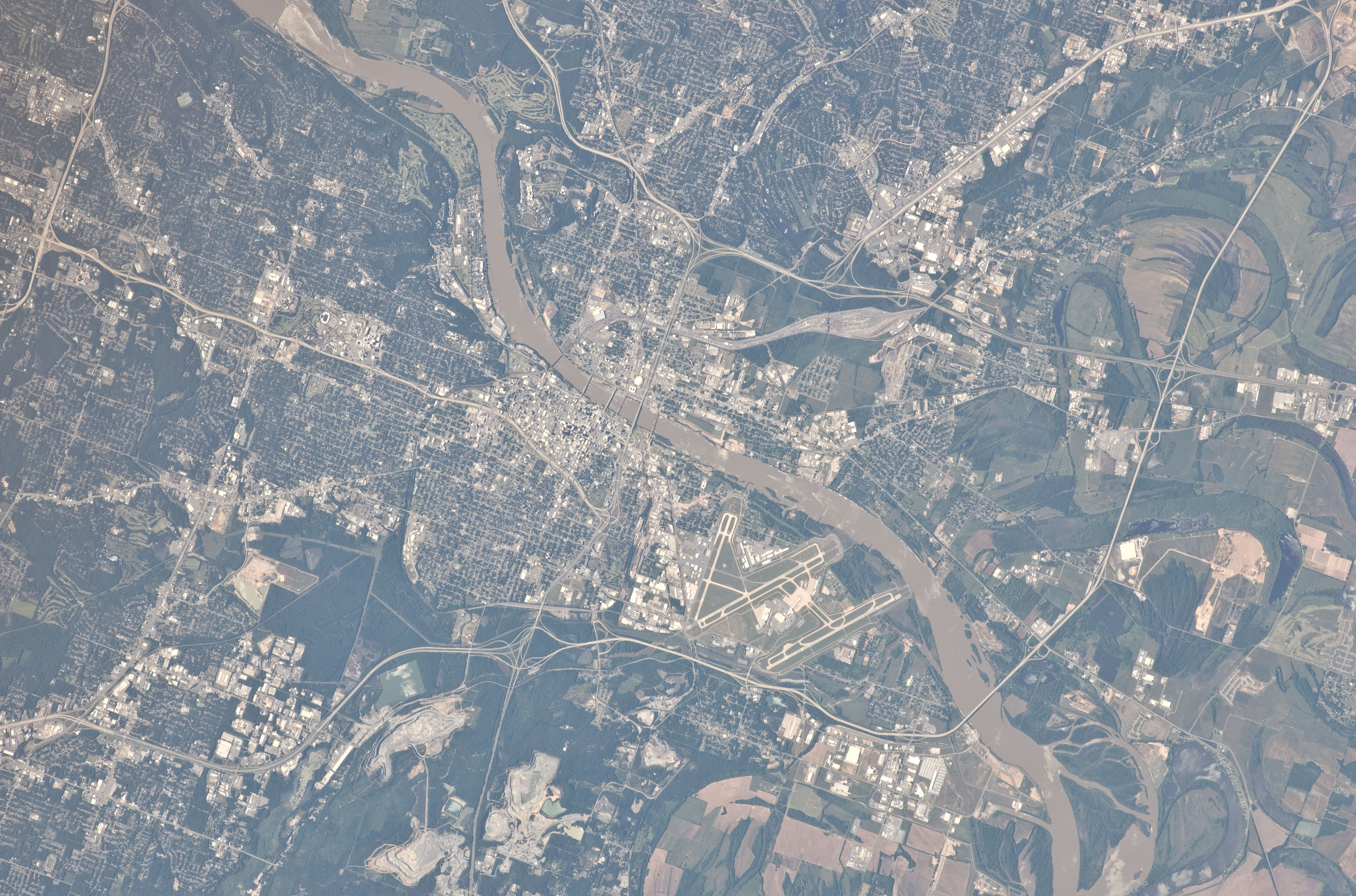 Little Rock AR, USA from space